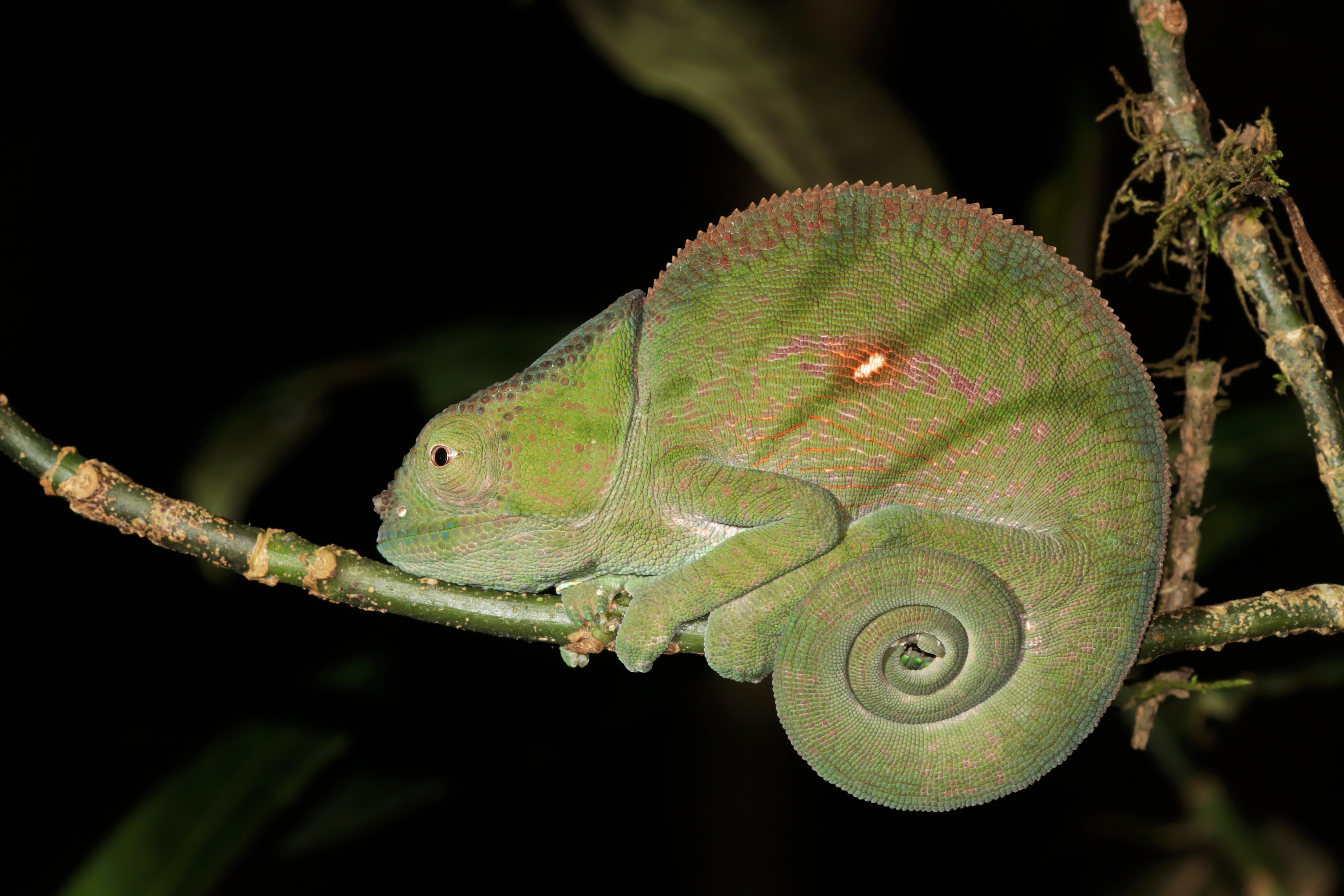 Parson's chameleon (Calumma parsonii cristifer) female Andasibe, Madagascar